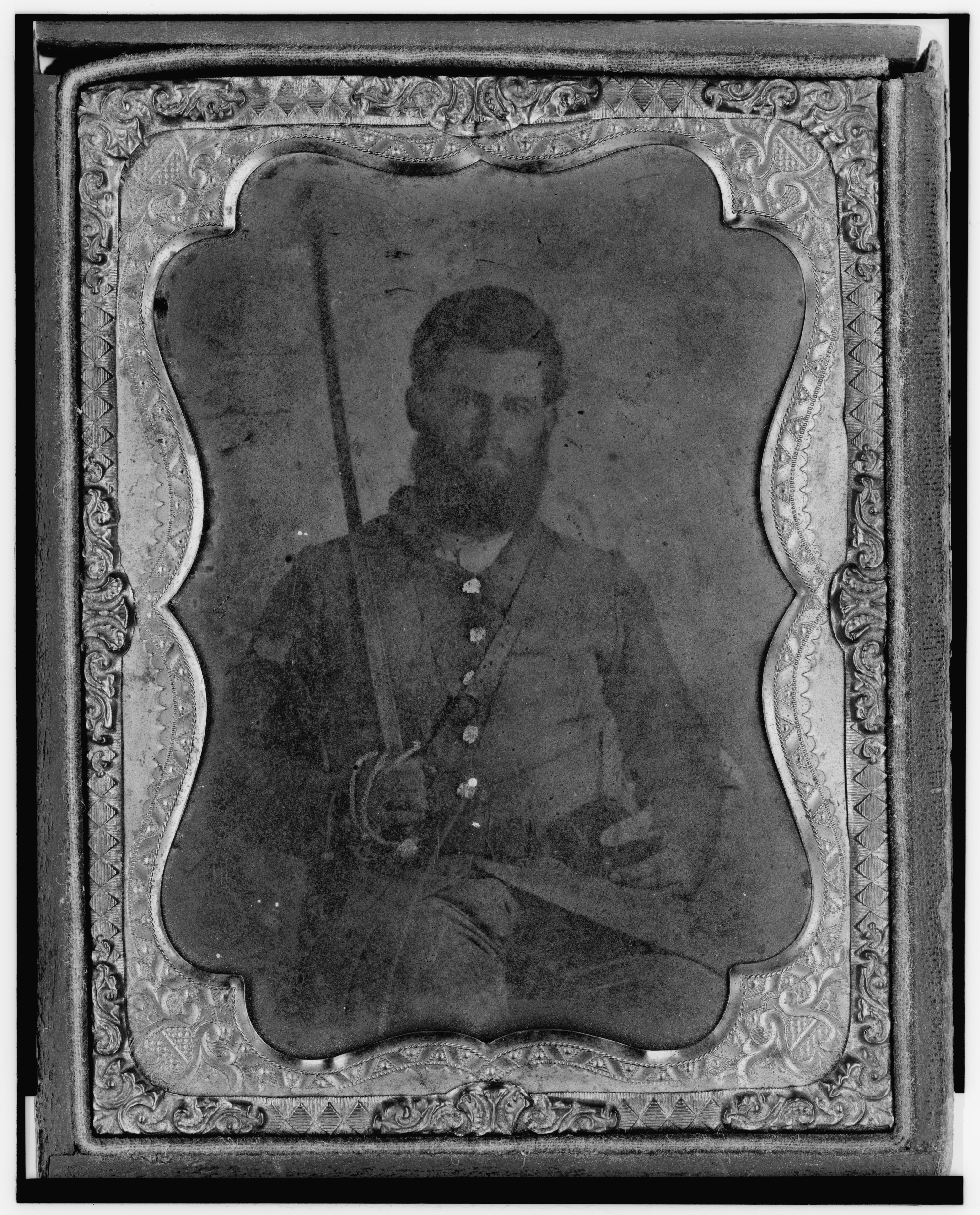 Title: James S. Dodd, Pvt., Co. C, 4th South Carolina Cavalry, half-length portrait, seated holding saber, facing front Physical description: 1 photographic print. Notes: Forms part of: Civil War Photograph Collection (Library of Congress).; Written on negative sleeve: Enlisted Jan. 19, 1861 at Camp Hampton, S.C. under(?) Capt. J.W.L. Cory on last roll call, Oct. 31, 1864 as teamster. Note: This company was first "B" Company, 10th Battalion S.C. Cavalry.; Title devised by Library staff.; Copy photo made by LC in 1963 from ambrotype belonging to Mr. Dick Dodd, P.O. Box 696, Portsmouth, Va.